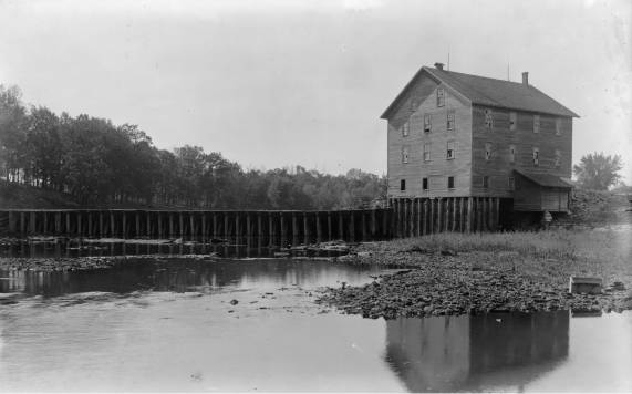 Photograph of the mill at Littleton, Iowa.